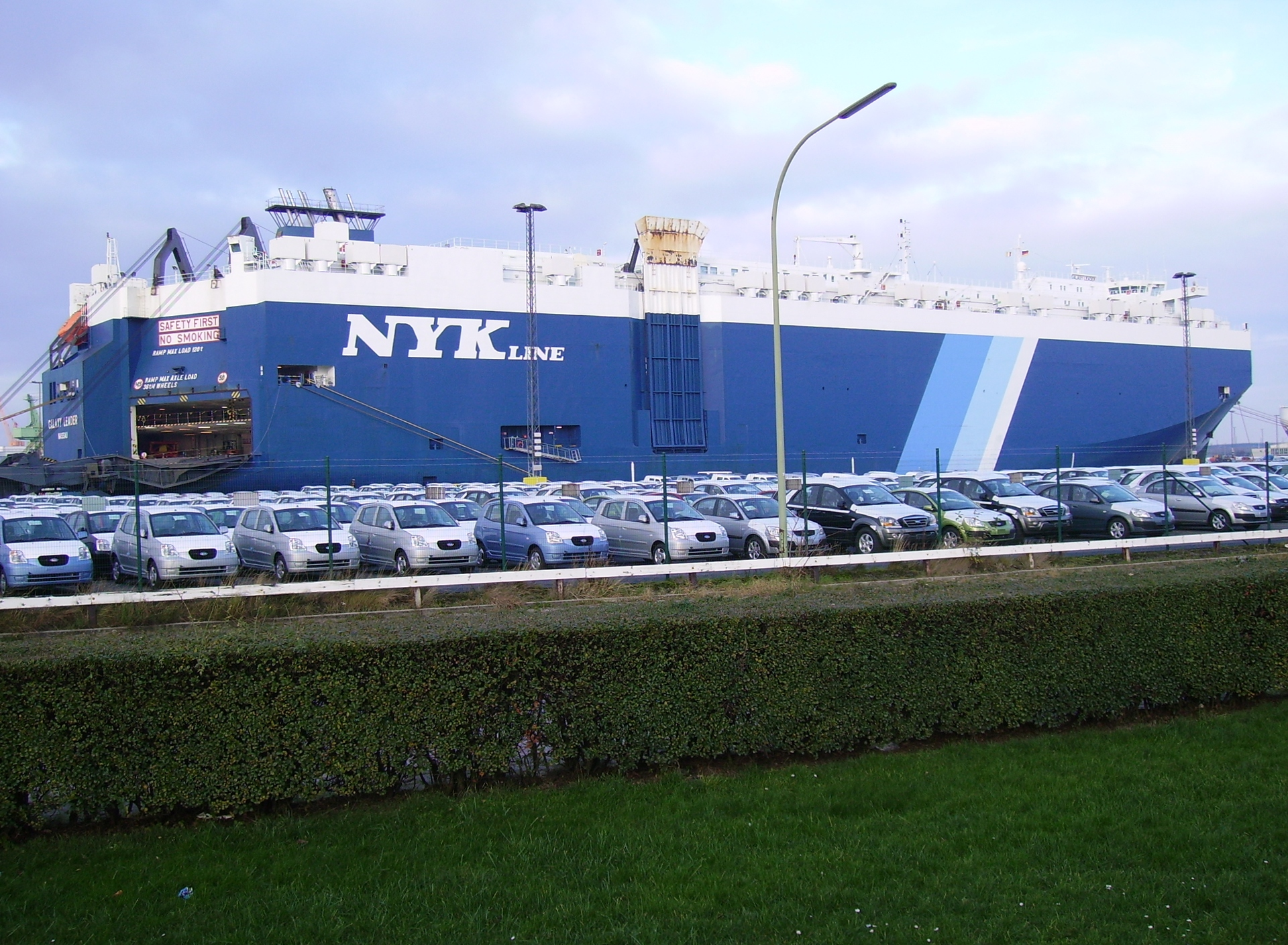 The car carrier "Galaxy Leader“ of the Japanese company NYK (Nippon Yusen Kaisha) in the port of Bremerhaven IMO Number: 9237307 MMSI Number: 311408000 Callsign: C6SO2 Length: 190 m Beam: 32 m